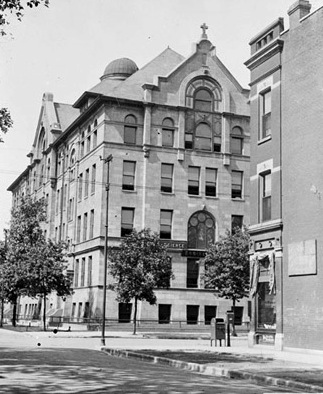 Exterior view of a DePaul University building in the Near North Side community area of Chicago, Illinois.